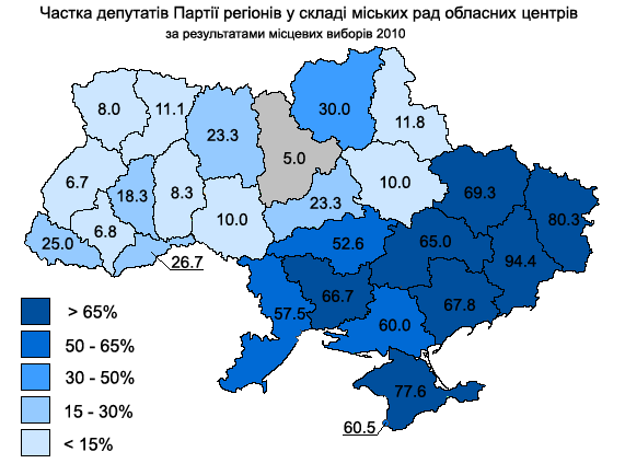 Share of Party of Regions' deputies elected to city counsils of regional capitals, Ukrainian local elections 2010